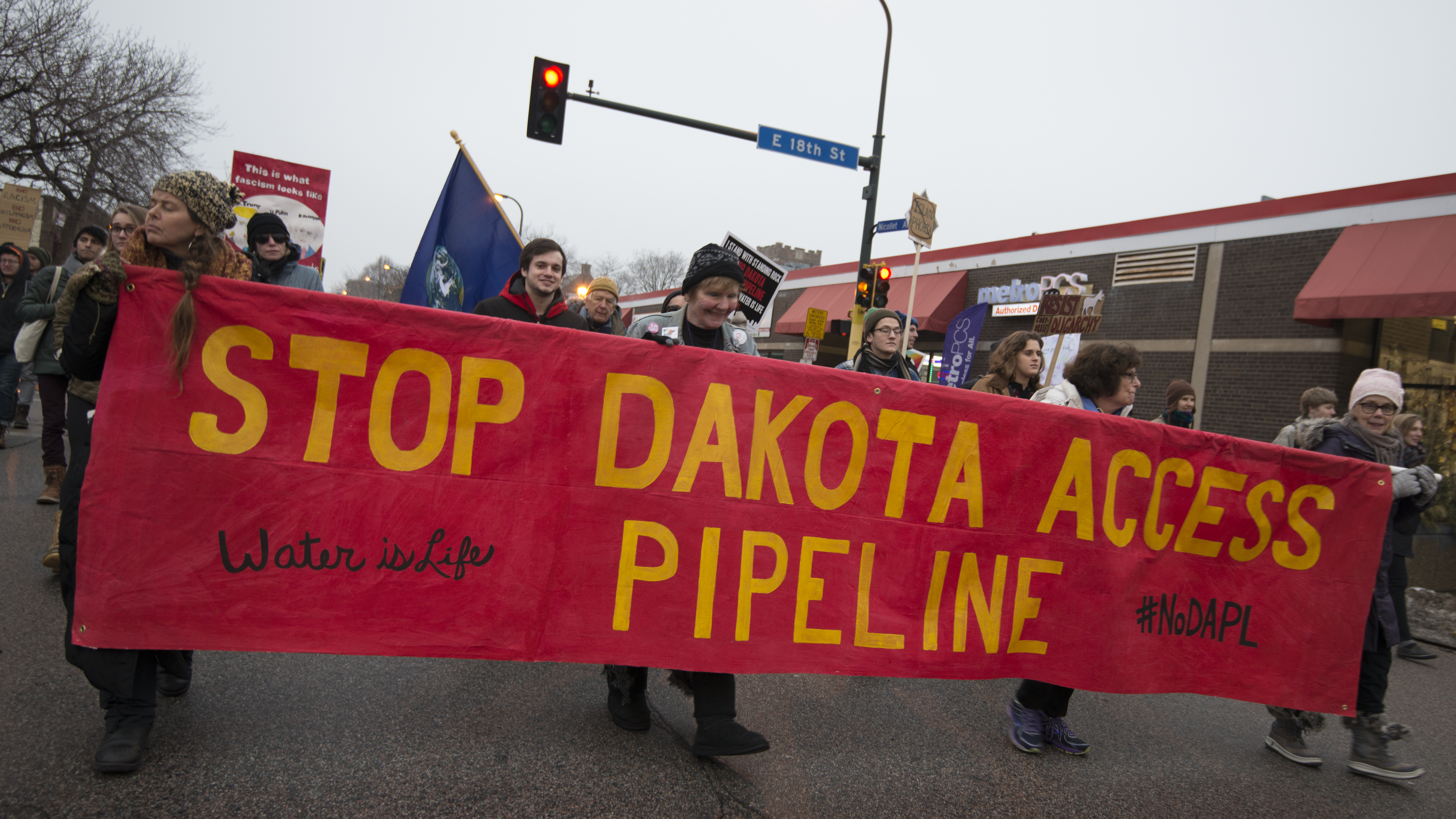 Minneapolis, Minnesota January 20, 2017 About 3000 people marched through Minneapolis to protest the inauguration of Republican President Donald Trump. The people gathered in south Minneapolis and then marched downtown to City Hall. They criticized Trump's policies on women, immigrants, Muslims, LGBTQ people, workers, and the environment. 2017-01-20 This is licensed under the Creative Commons Attribution License. Give attribution to: Fibonacci Blue